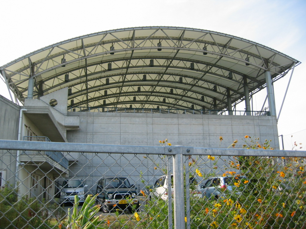 NARAWAWING.